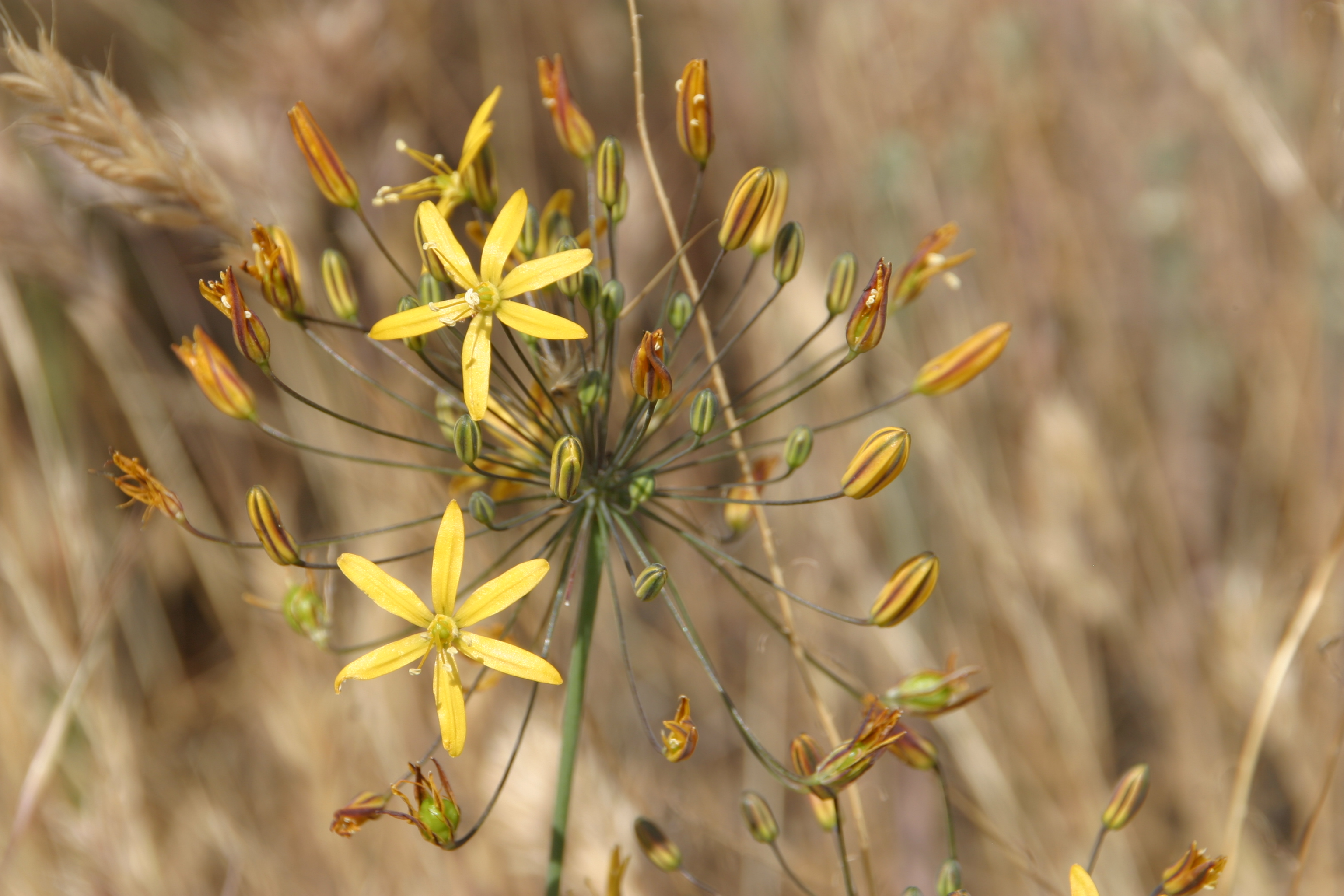 Bloomeria crocea Photographs by Joe Decruyenaere Files uploaded by PDTillman